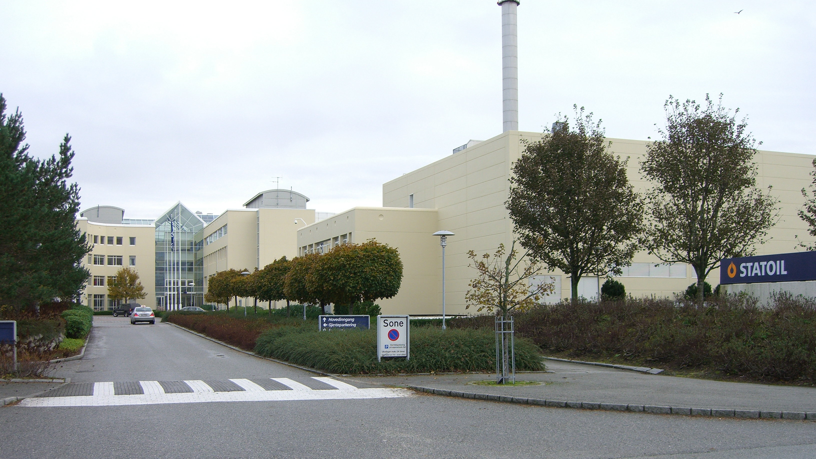 Statoil office building in Sandnes, Norway